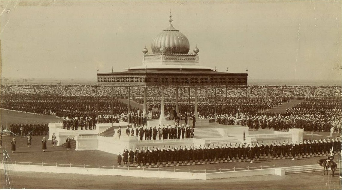 The image shows the durbar at Delhi of King George V and Queen Mary of Britain.